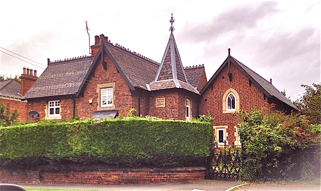 Cemetery Lodge, Barton on Humber